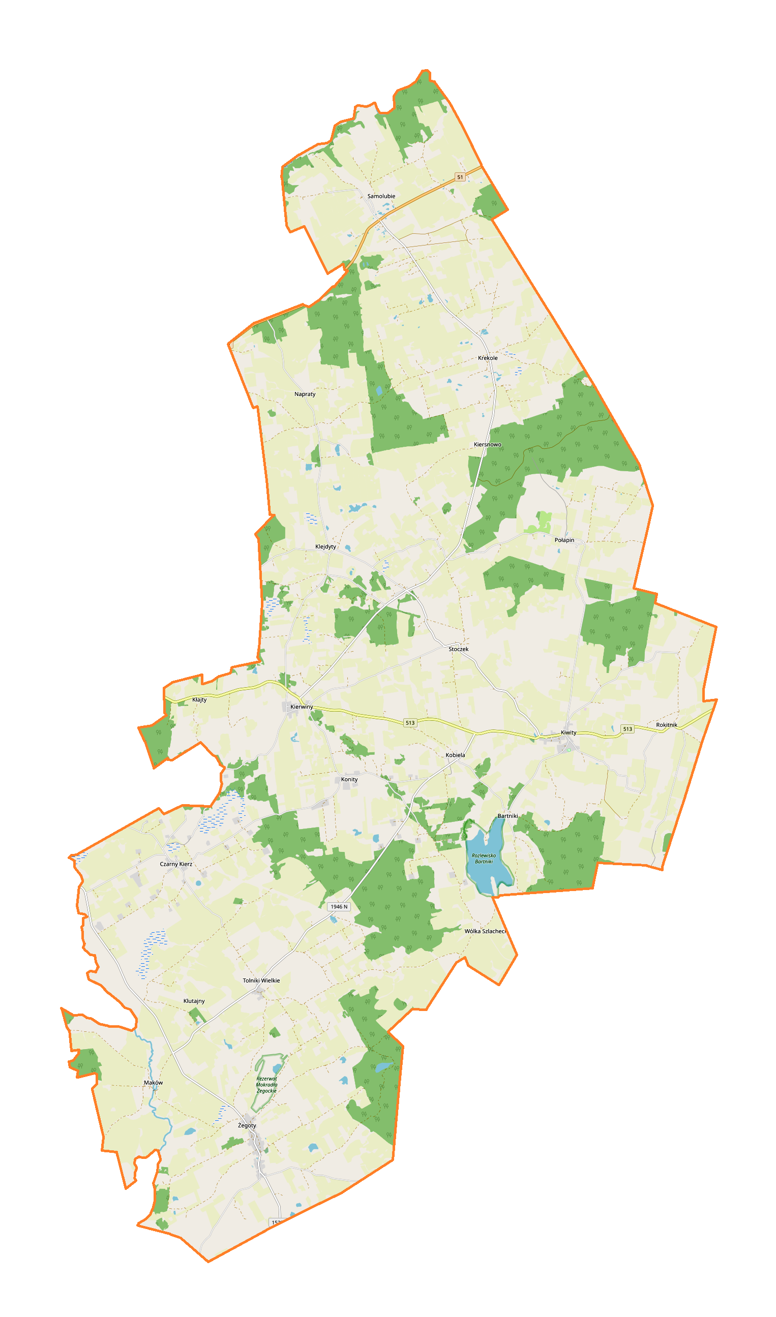 Location map